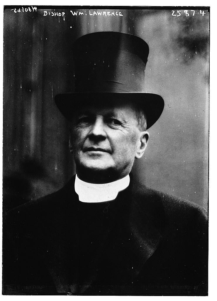 Bain News Service, publisher. William Lawrence [between 1910 and 1915] 1 negative : glass ; 5 x 7 in. or smaller. Notes: Title from unverified data provided by the Bain News Service on the negatives or caption cards. Forms part of: George Grantham Bain Collection (Library of Congress). Format: Glass negatives. Repository: Library of Congress, Prints and Photographs Division, Washington, D.C. 20540 USA, General information about the Bain Collection is available at Persistent URL: Call Number: LC-B2- 2587-4